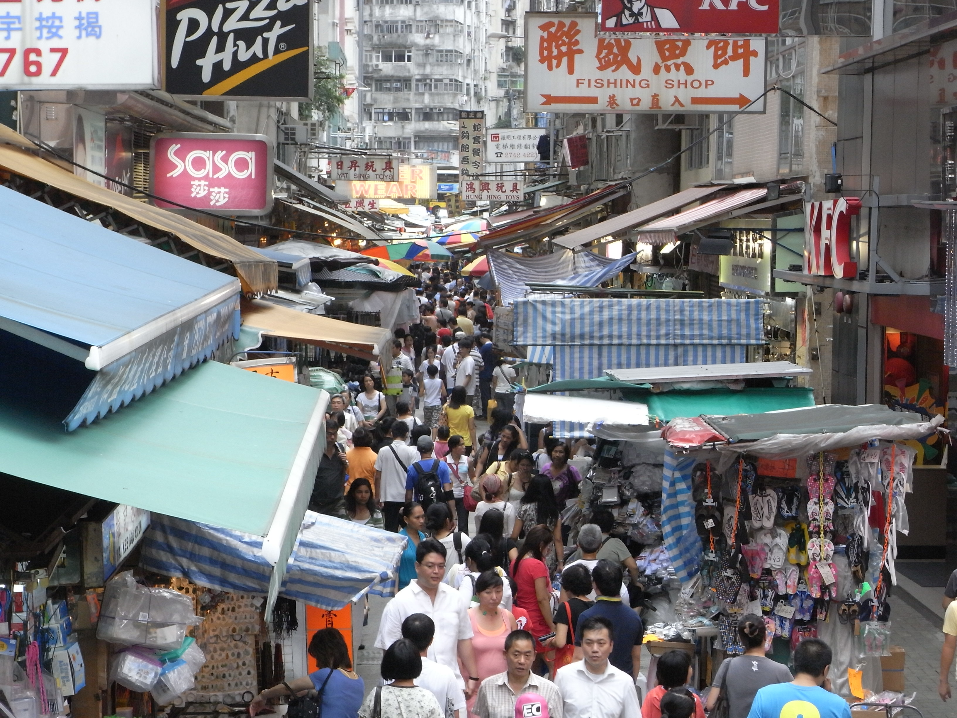 香港電車遊車河: - 太原街